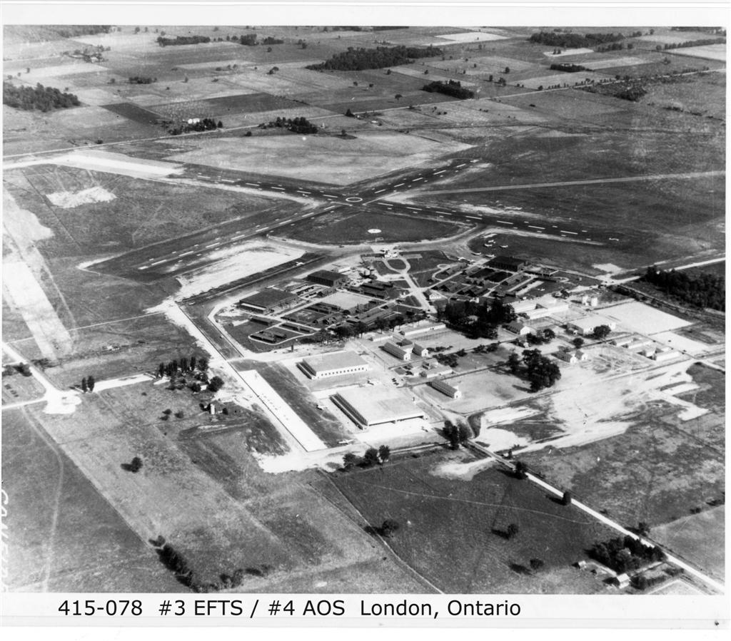 An aerial view of RCAF Station Crumlin, based at the London, Ontario, Canada airport. The photograph was taken in the summer of 1942 because the terminal building, opened in 1942 is clearly visible. Crumlin sideroad is conspicuous and the Airmens' Canteen, in immaculate condition in 2014, is seen on Crumlin sideroad in front of an H-Hut. Runways 14-32 and 05-23 form an "X" pattern. Runway 05-23 was decommissioned in 1988 and no longer exists.